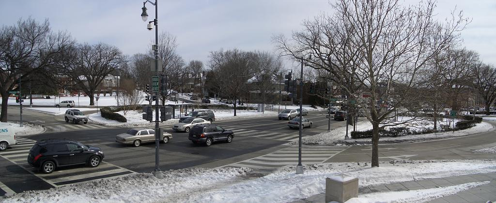 View of Tenley Circle, with St. Ann's Catholic Church to photographer's back. AnnotationsThis image is annotated: View the annotations at Commons Photo panorama and stitching by Asiir 21:31, 15 February 2007 (UTC).